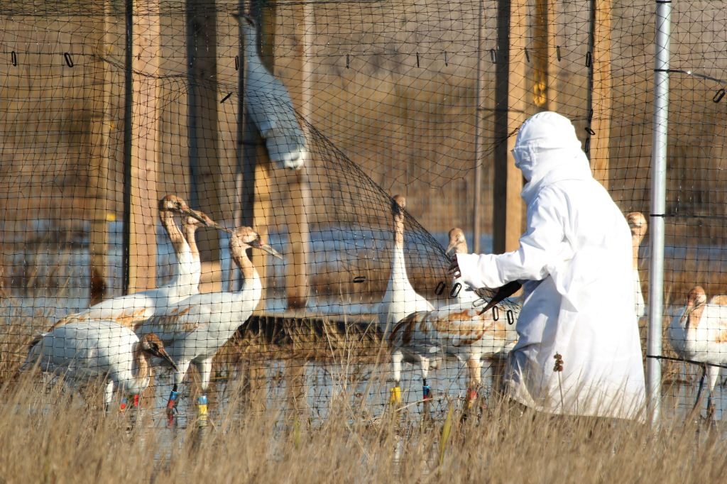 Sara Zimorski of the Louisiana Department of Wildlife and Fisheries dressed in a whooping crane costume, opening a section of fence in the top-netted pen to let the birds into an open pen. Photo credit: Gabe Giffin/LDWF